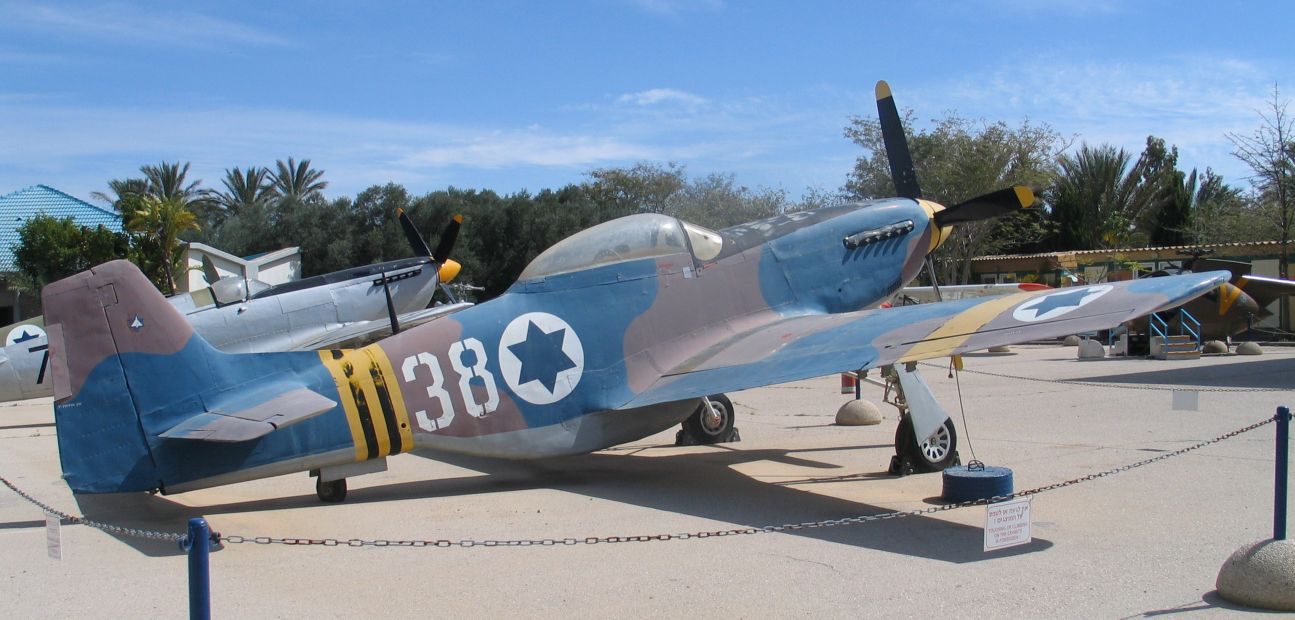 Description: North American P-51D Mustang fighter at Muzeyon Heyl ha-Avir, Hatzerim airbase, Israel. 2006. Source: Photo by me, User:Bukvoed.